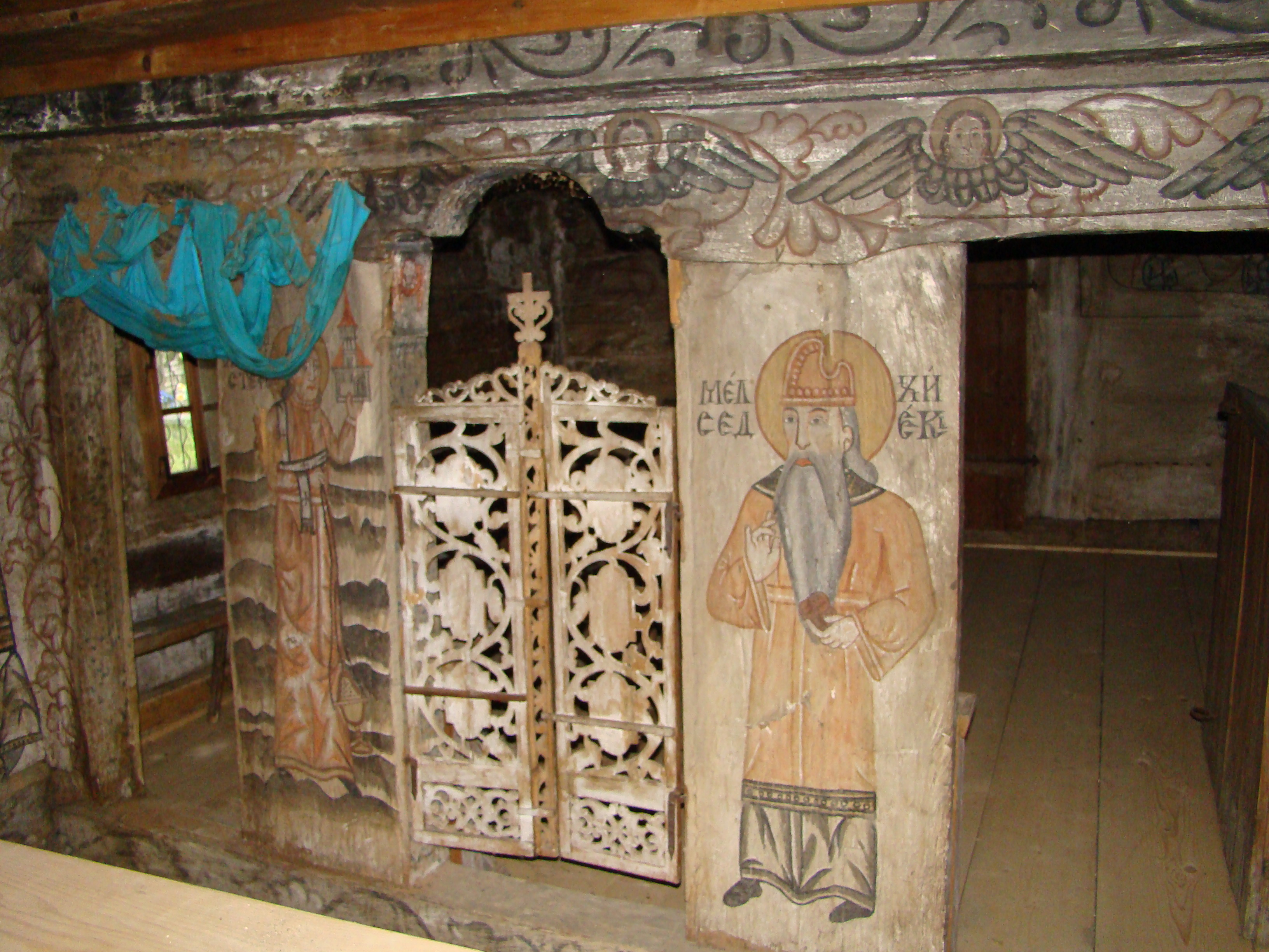 Melchizedek icon in Libotin wooden church, Maramureș, Romania